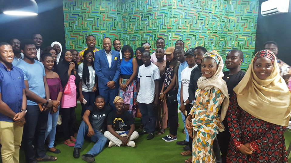 Olufeko as Global Shapers keynote speaker at Civic Innovation Lab in Abuja, 2017